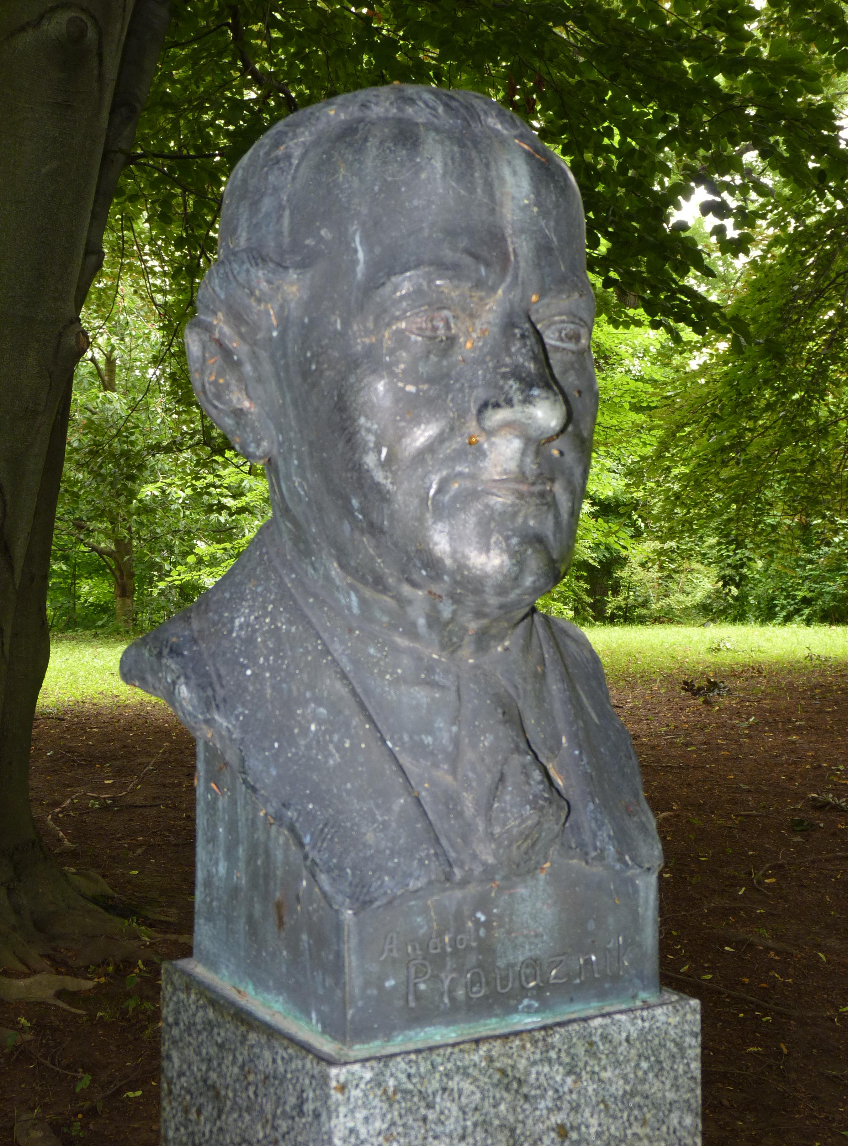 Holy Trinity Church in Rychnov nad Kněžnou, Rychnov nad Kněžnou District, Hradec Králové Region, Czech Republic